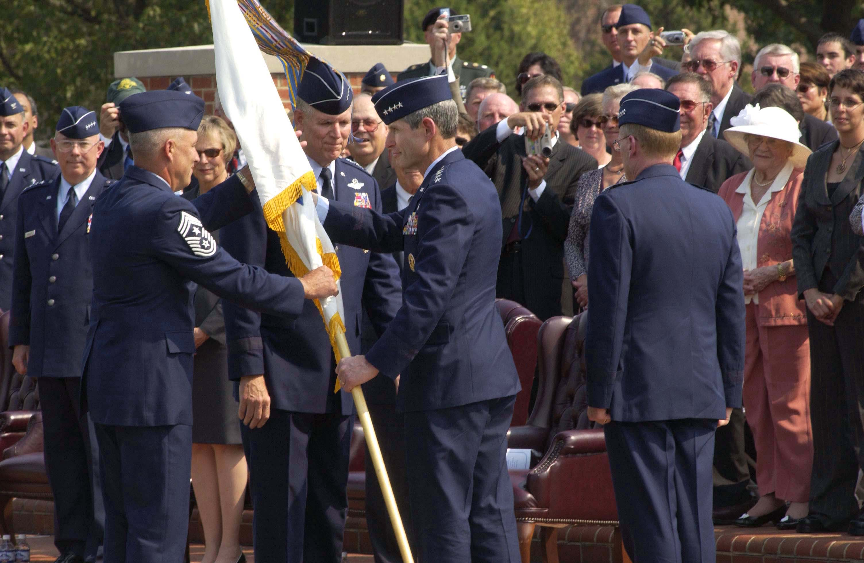 SCOTT AIR FORCE BASE, Ill -- Gen. Norton A. Schwartz assumes command of U.S. Transportation Command and hands off the flag to Chief Master Sgt. Michael Kerver during the TRANSCOM change of command ceremony Sept. 7 here as Joint Chiefs chairman Gen. Richard B. Myers looks on. Chief Kerver is the command chief master sergeant of Air Mobility Command. (U.S. Air Force photo by Airman 1st Class Jeff Andrecjcik)